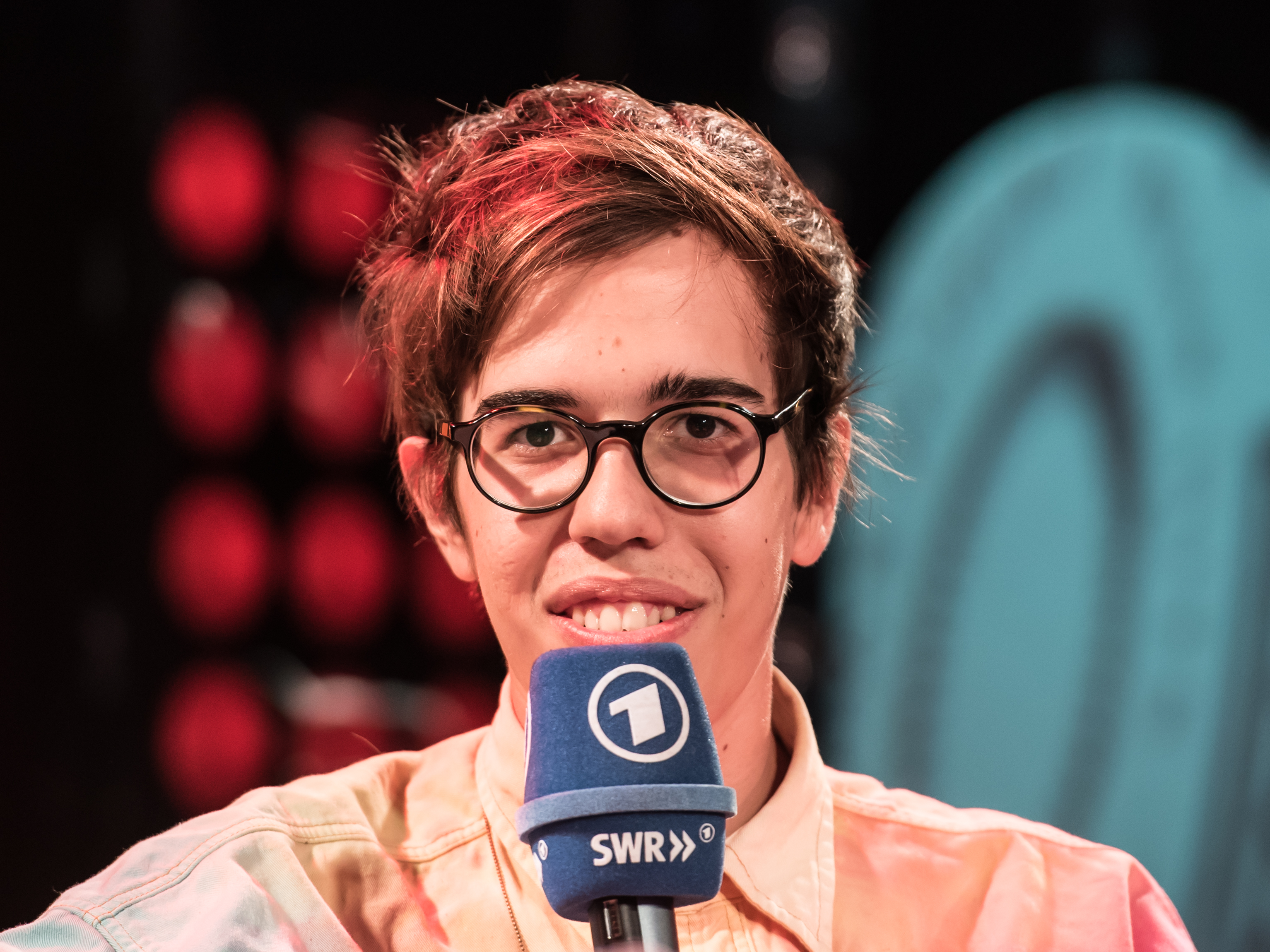 Austrian musician filous at the SWR3 New Pop Festival 2016